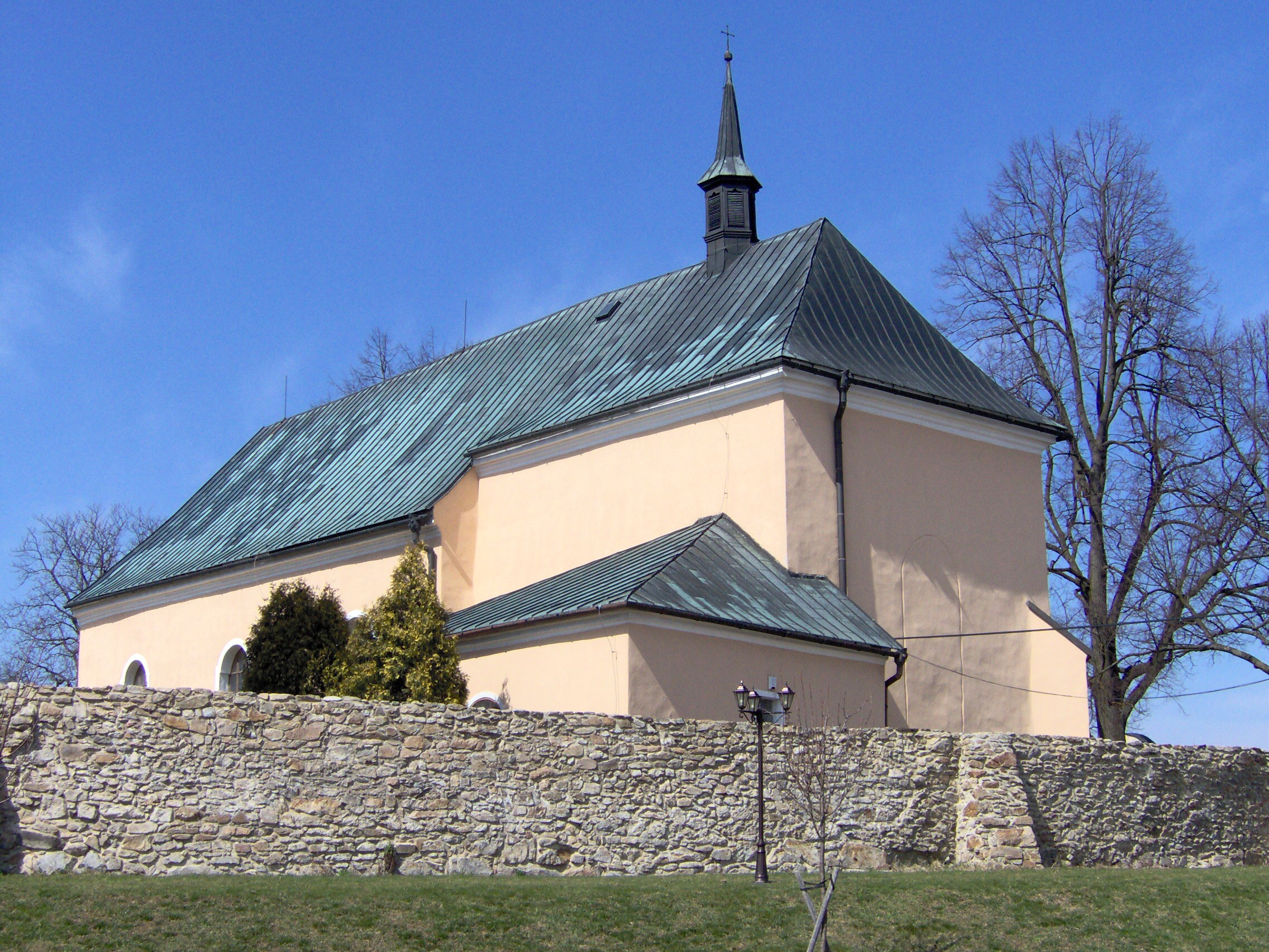 Saint James church, Osová Bítýška village, Žďár nad Sázavou District, Czech Republic